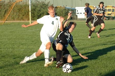 Sliding tackle. Picture taken by Doreen Sugierski.